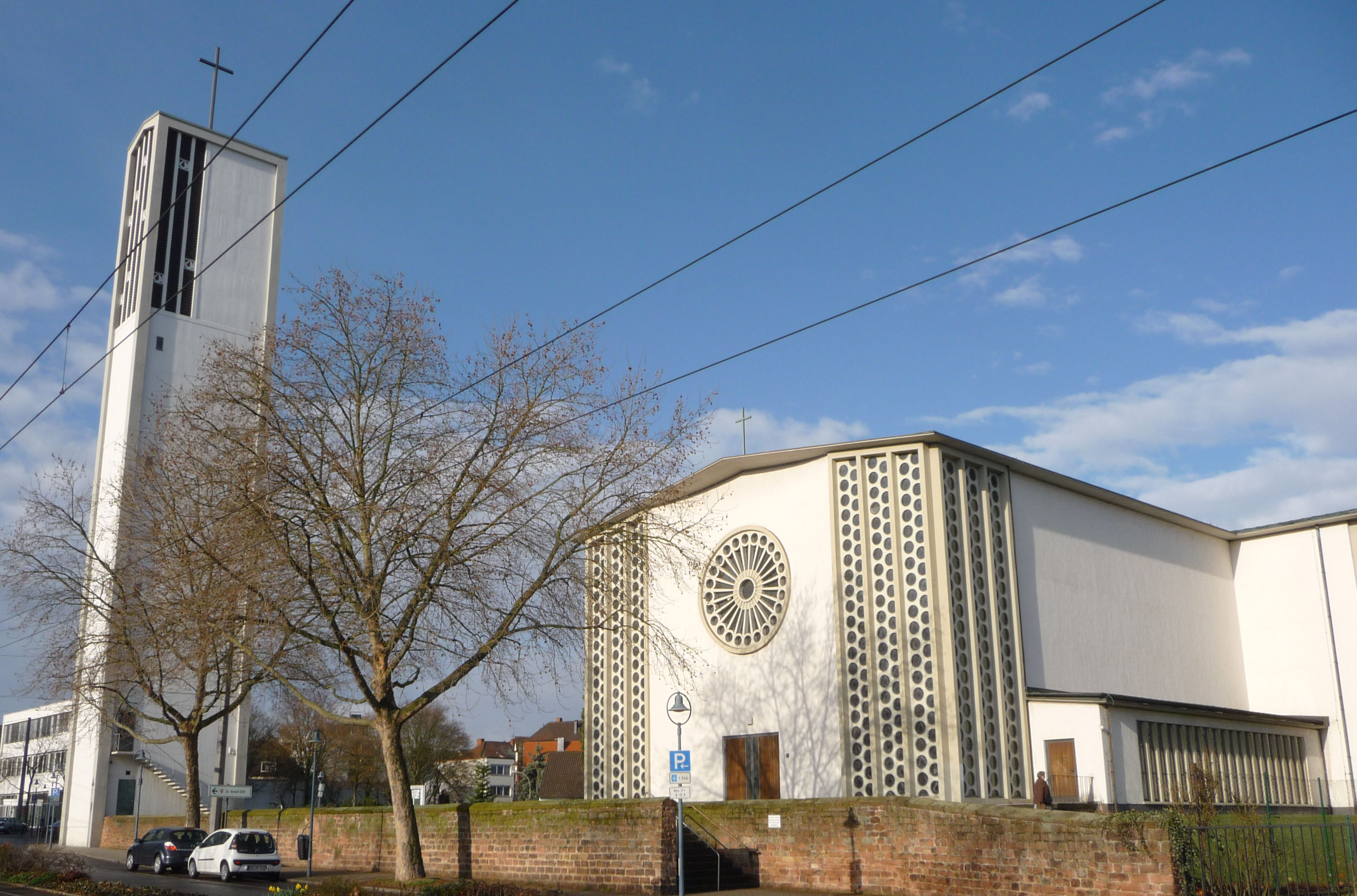 Church in Ludwigshafen, Germany Church in Ludwigshafen, Germany